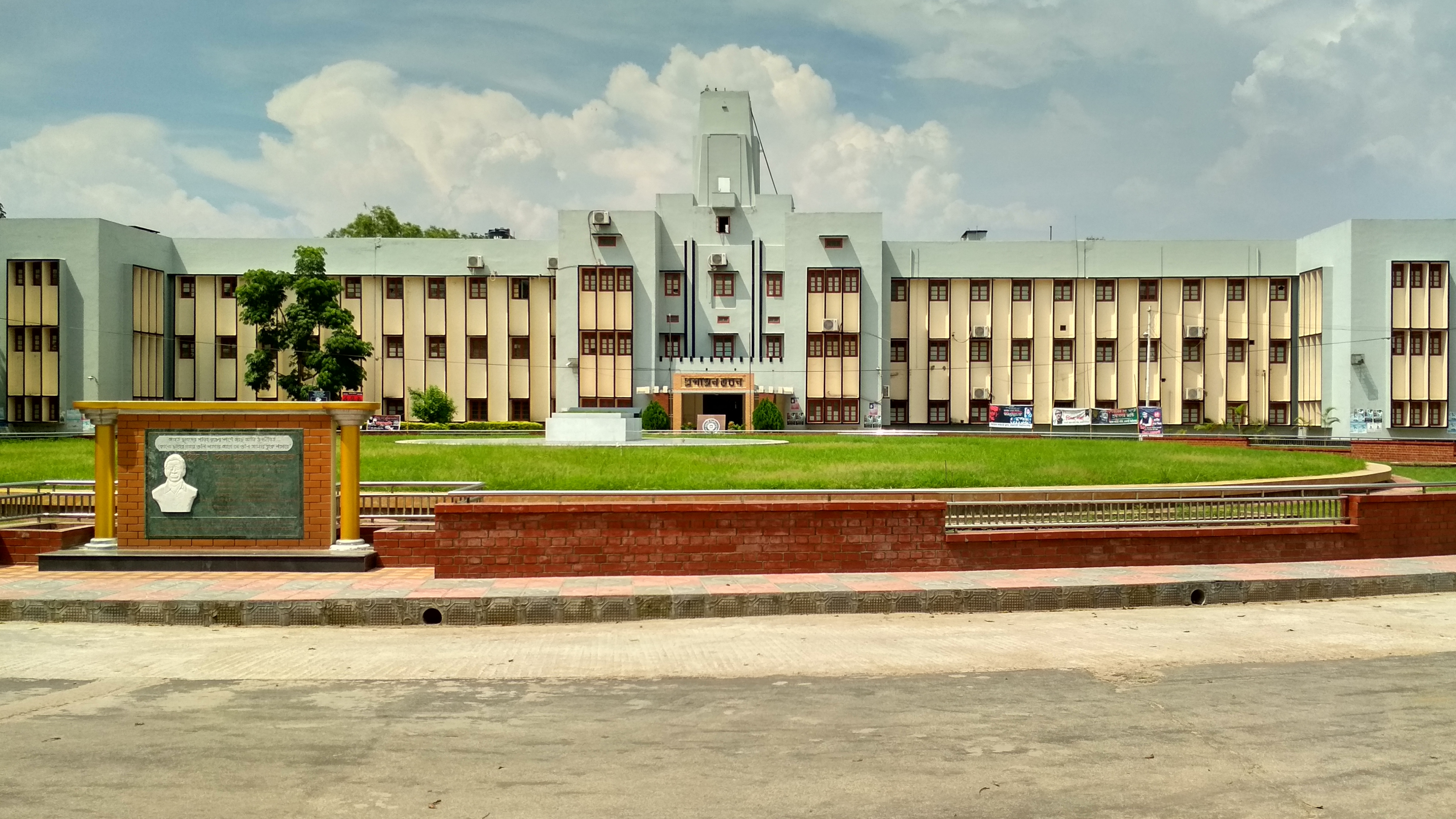 Administration Building, University of Rajshahi